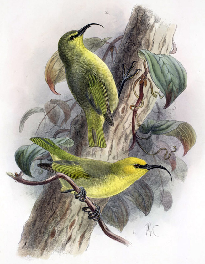 Illustration from Avifauna of Laysan By Lionel Walter Rothschild, 2nd Baron Rothschild (8 February 1868 – 27 August 1937) by John Gerrard Keulemans (1842-1912) (Dutch bird illustrator), which was issued from 1893--1900.